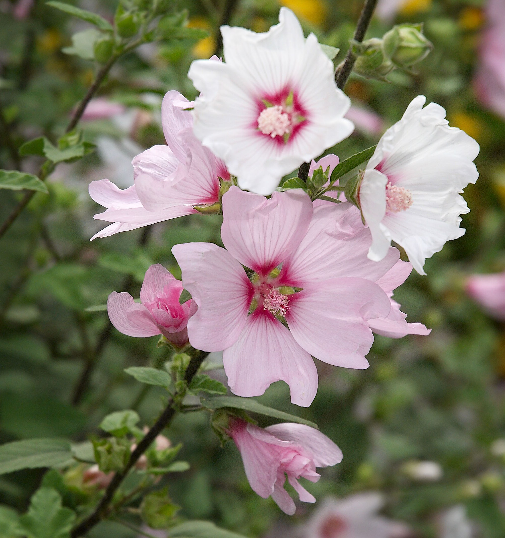 Lavatera 'Barnsley'. This photo has been taken in Belgium.